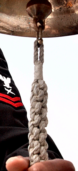 050422-N-9389D-148 Yokosuka, Japan (April 22, 2005) - Communications Technician 2nd Class Shauna Lewis of Johnsonville, S.C., stand-by to ring the bell on the aft flight deck aboard the guided missile cruiser USS Chancellorsville (CG 62) for the departure of the official party during a change-of-command ceremony. Change-of-command ceremonies are held to honor outgoing commanding officers as they turnover duties to oncoming commanding officers. Currently in port, Chancellorsville demonstrates power projection and sea control as a forward-deployed Ticonderoga-class destroyer, operating from Yokosuka, Japan. U.S. Navy photo by Photographer's Mate Airman Benjamin Dennis (RELEASED)